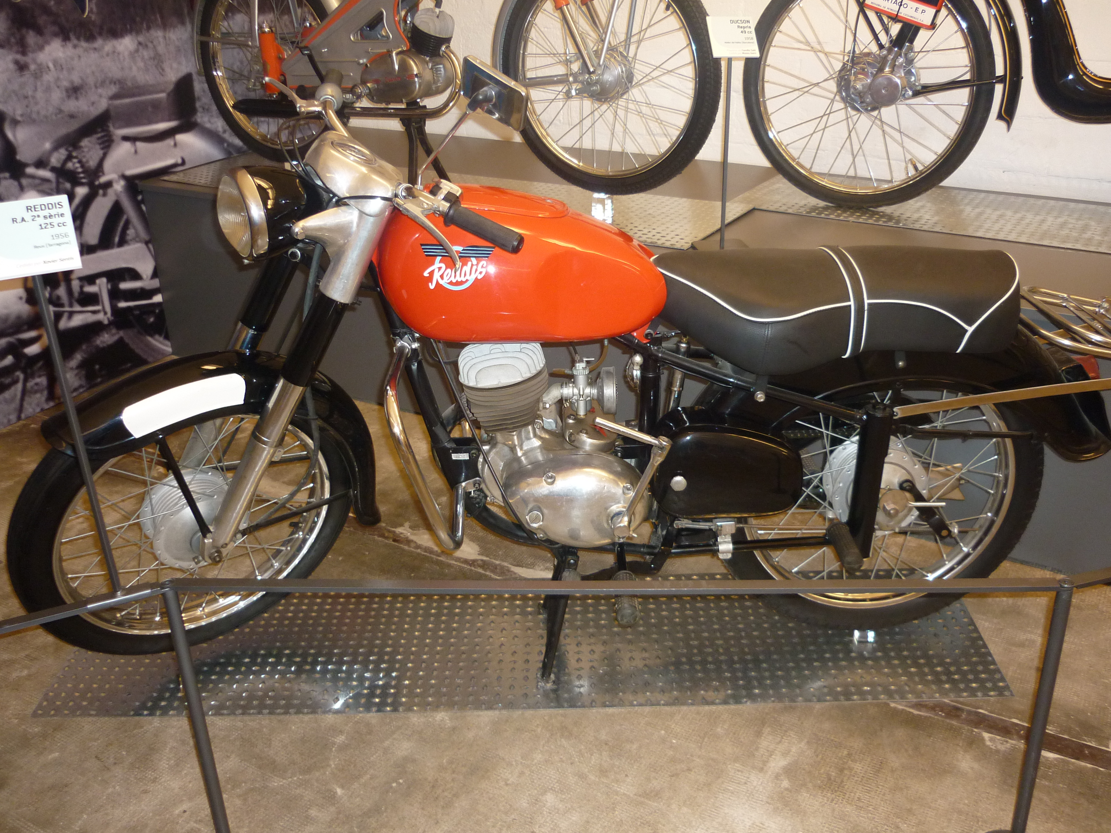 Reddis R.A. 2a Sèrie 125cc (1956).Museu de la Moto de Barcelona (Catalonia).